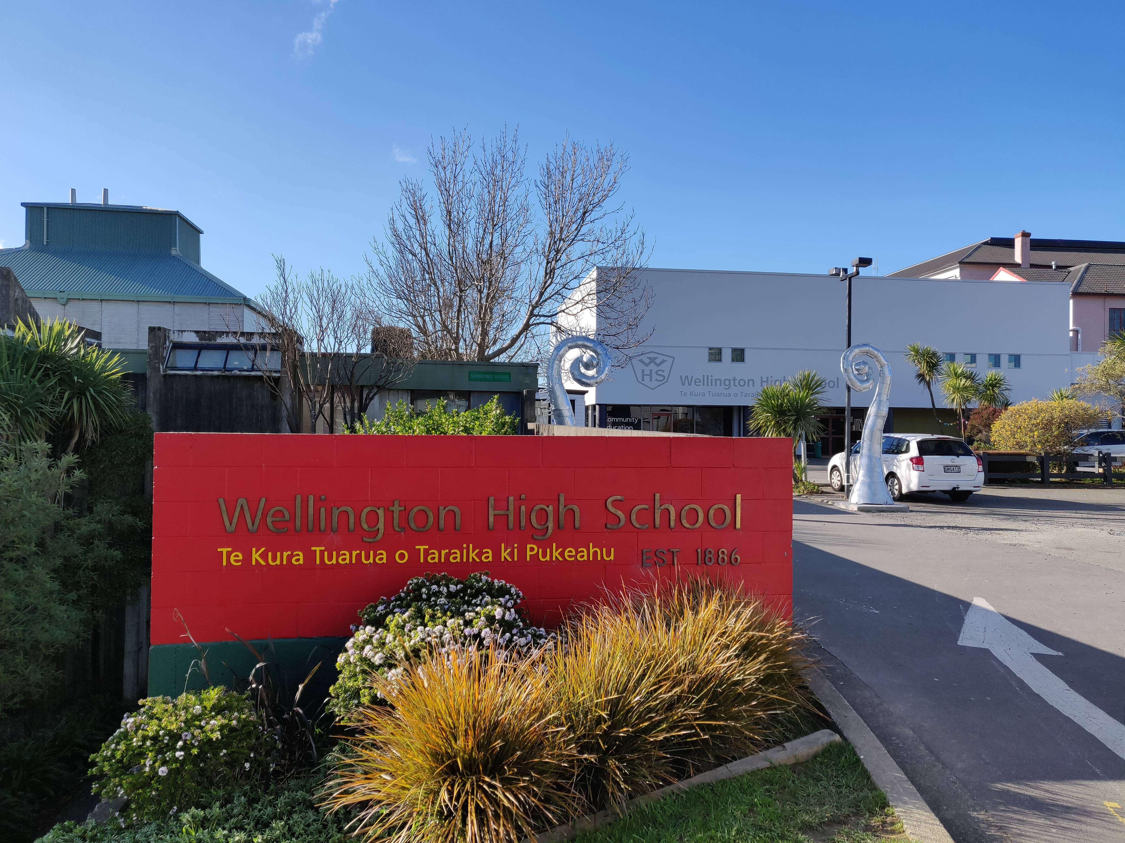 The entrance to Wellington High School in Mount Cook, Wellington